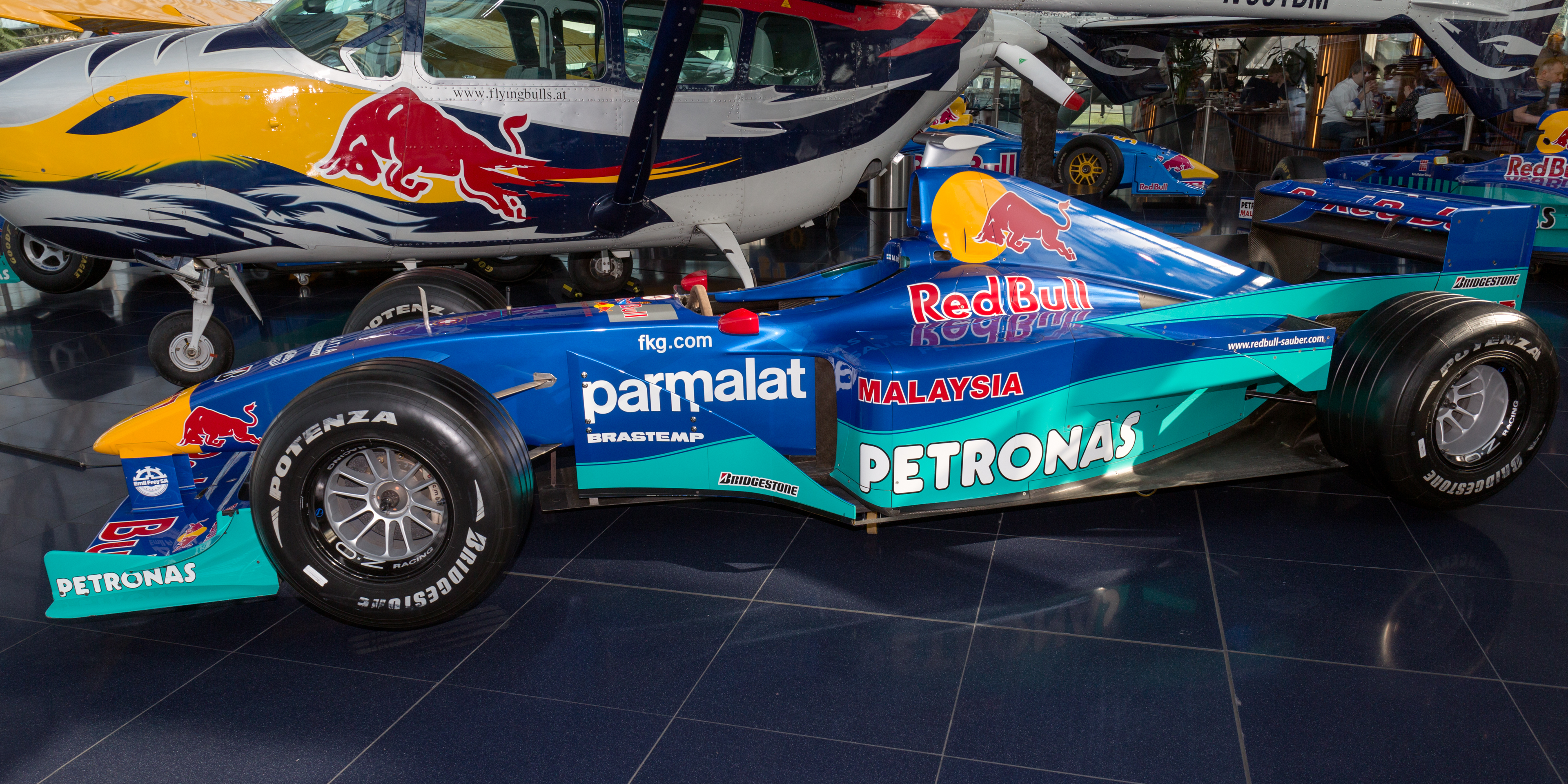 Hangar-7: Sauber C19